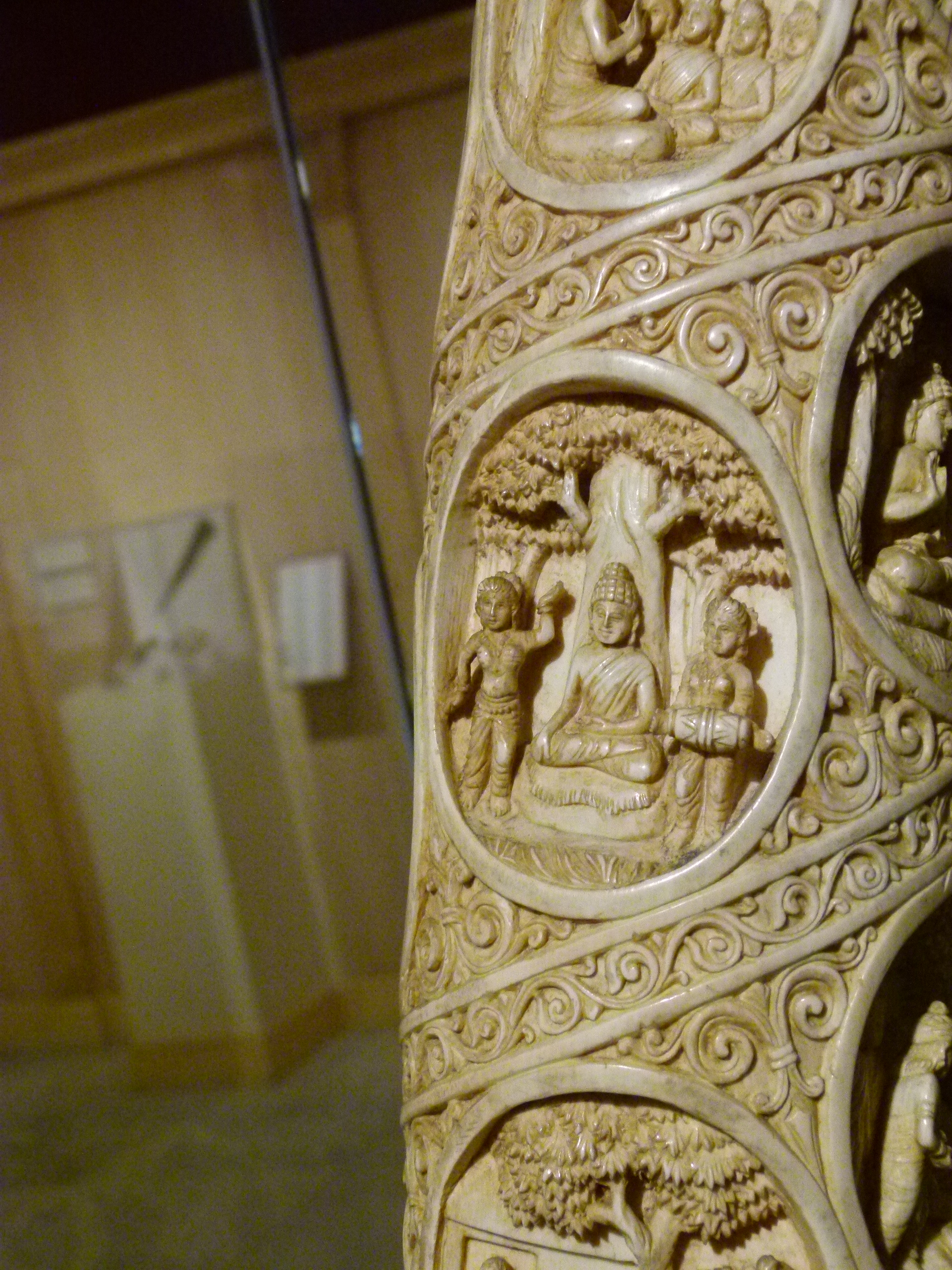 This is 24th roundel on the Carved tusk taken from the Decorative Arts Gallery, National Museum, Delhi.